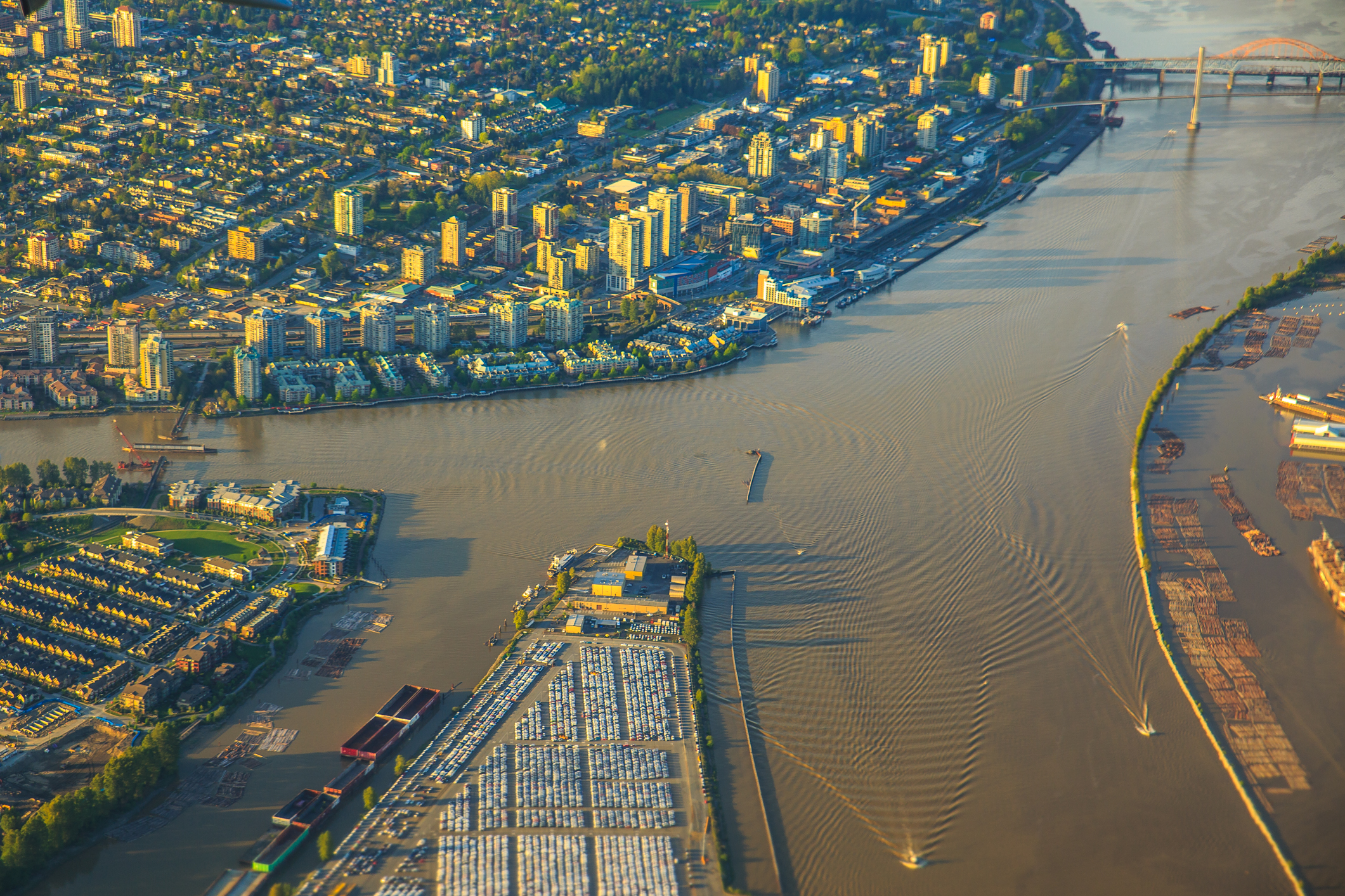 Flight from Kelowna to Whitehorse...the Pattullo Bridge with the Sky train bridge in the foreground...New West Minster at the left